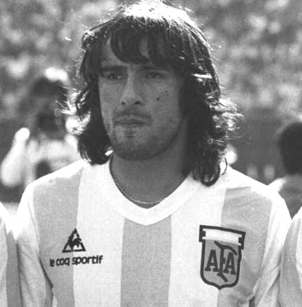 Argentine player, José D. Valencia.